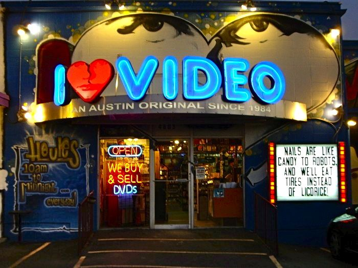 This is the storefront of I Luv Video's location at 4803 Airport Blvd Austin, TX 78751